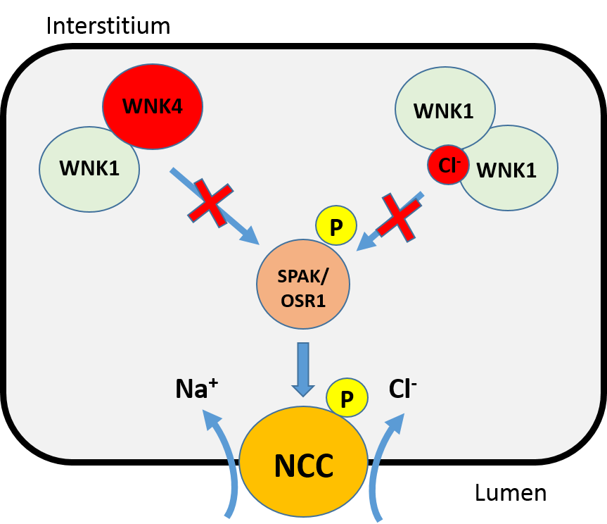 This is a diagram of proposed WNK1 inhibition by WNK4 and Cl- ions.